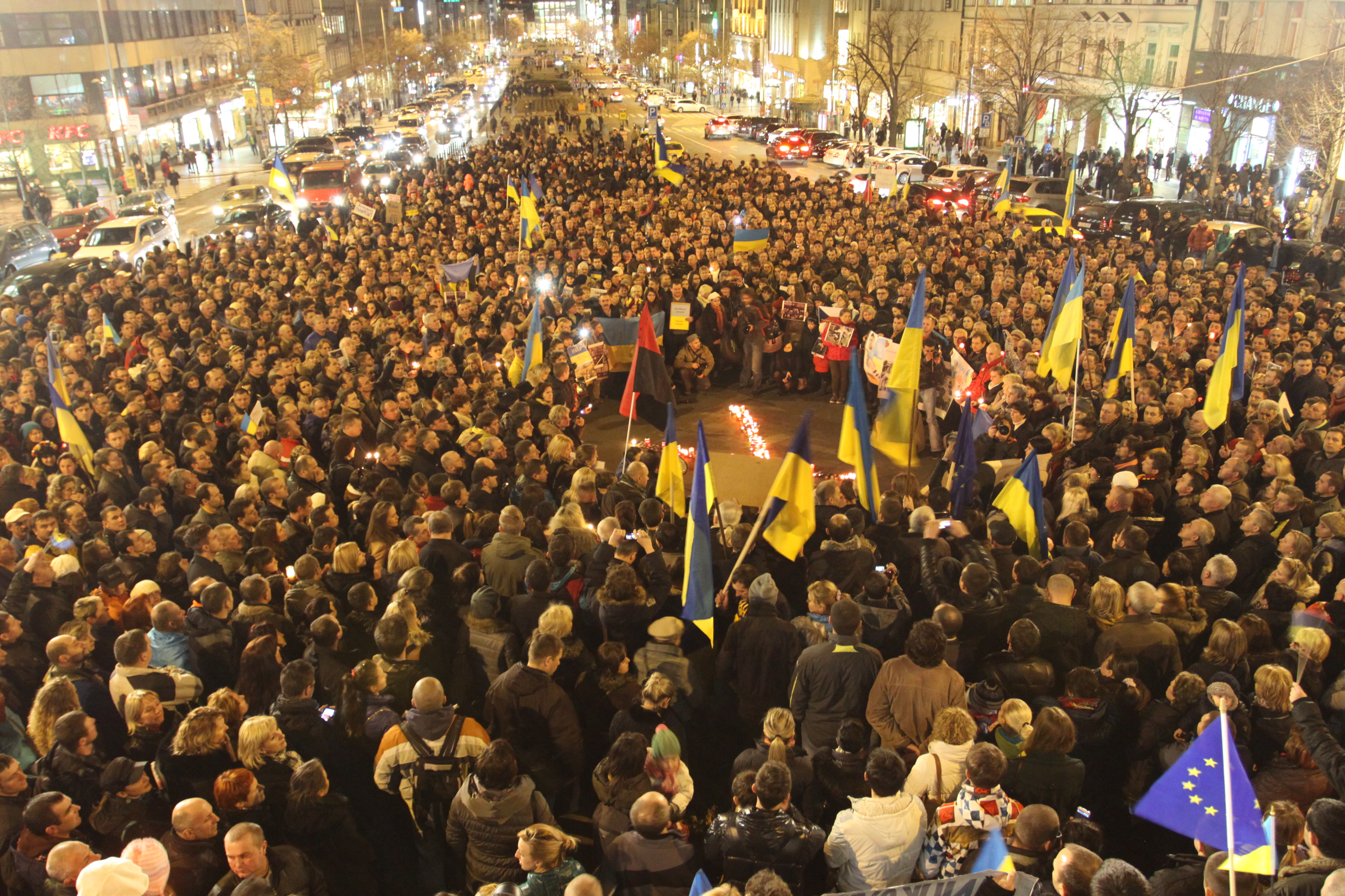 Support rally for Euromaidan in Prague, Czech Republic, 20th of February, 2014 Object location50° 04′ 47.38″ N, 14° 25′ 47.07″ E